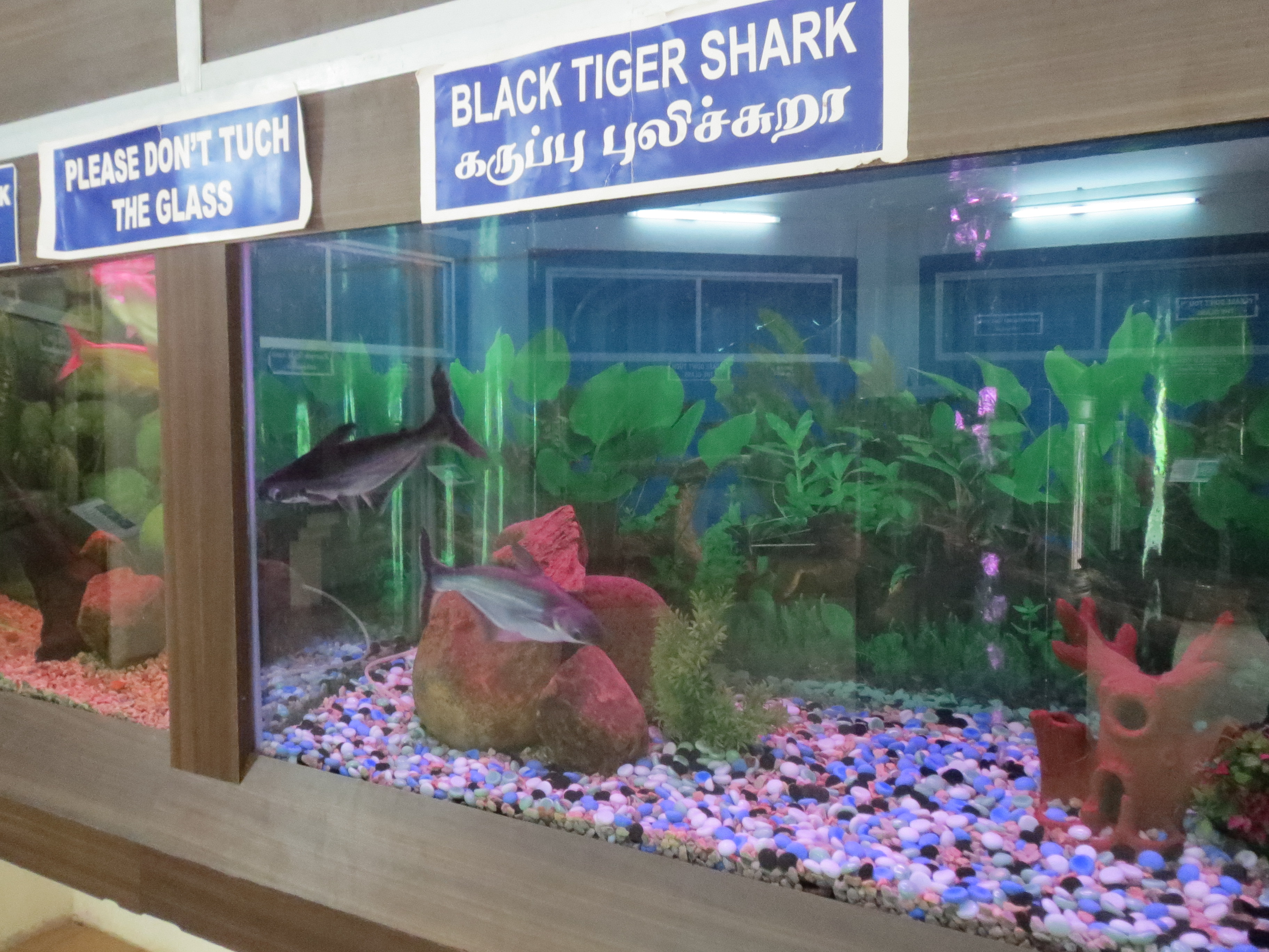 Black Tiger Shark Fish -Voc Park, Coimbatore.